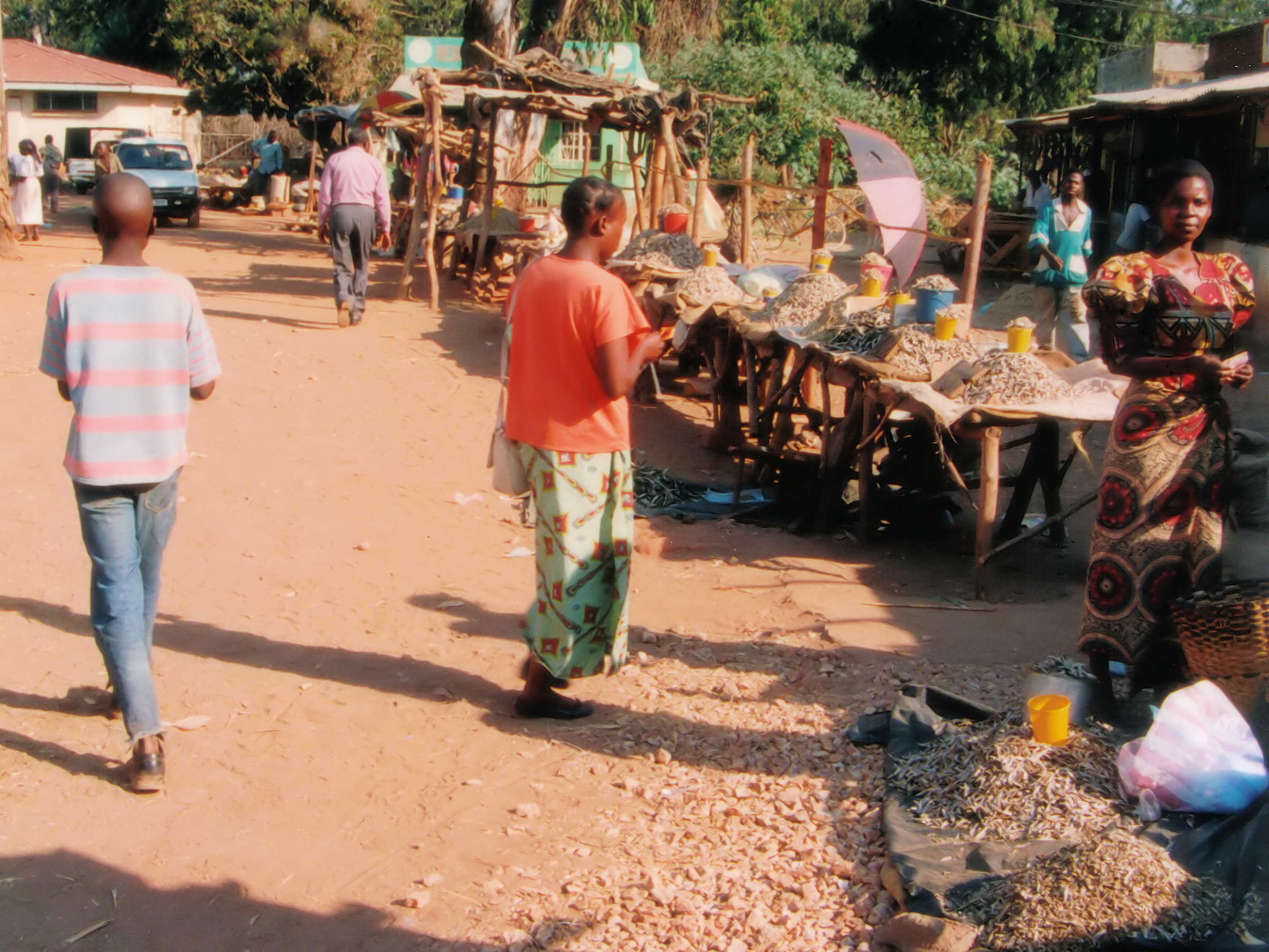 Market stalls selling kapenta in Chipata, Zambia. Scanned from photograph